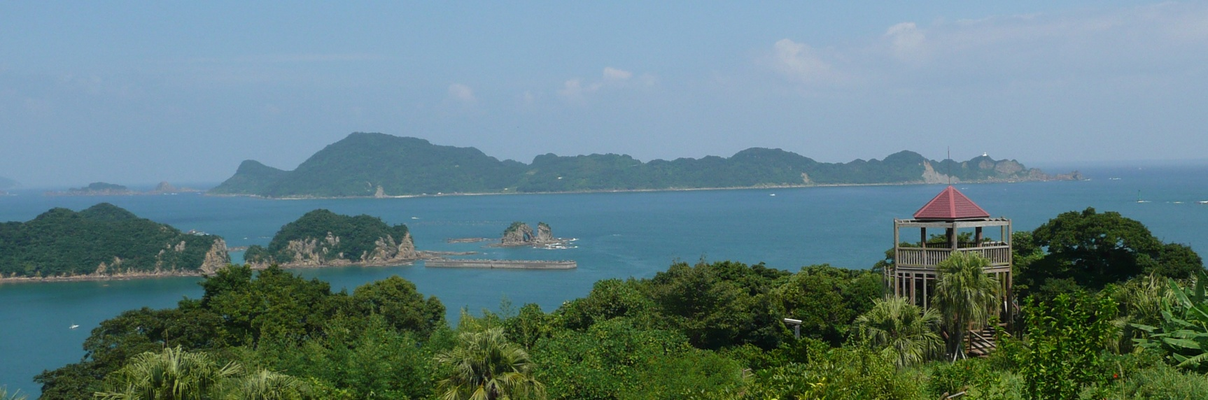 Hyuga Ohshima (Nichinan City, Miyazaki, Japan)